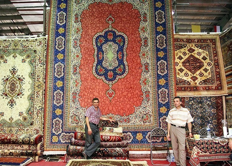 An Iranian/Persian carpet exhibition in city of Hamadan in 2016.